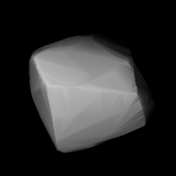 3D convex shape model of 361 Bononia, computed using light curve inversion techniques. J. Hanuš, J. Ďurech, M. Brož, B. D. Warner (June 2011). "A study of asteroid pole-latitude distribution based on an extended set of shape models derived by the lightcurve inversion method". Astronomy and Astrophysics 530: A134. ISSN 0004-6361. arXiv